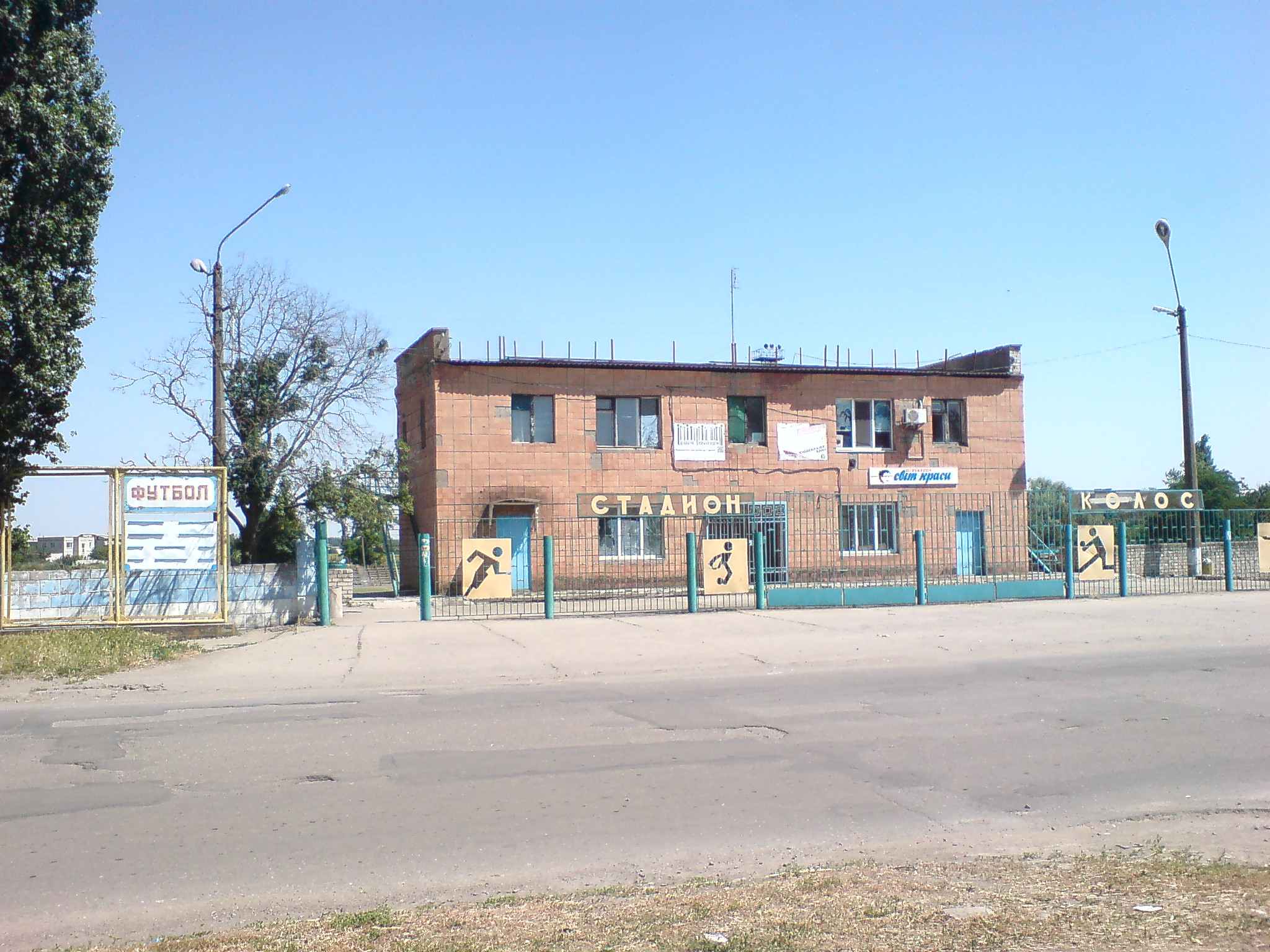 Kolos Stadium in Snihurivka, Mykolaiv Oblast, Ukraine